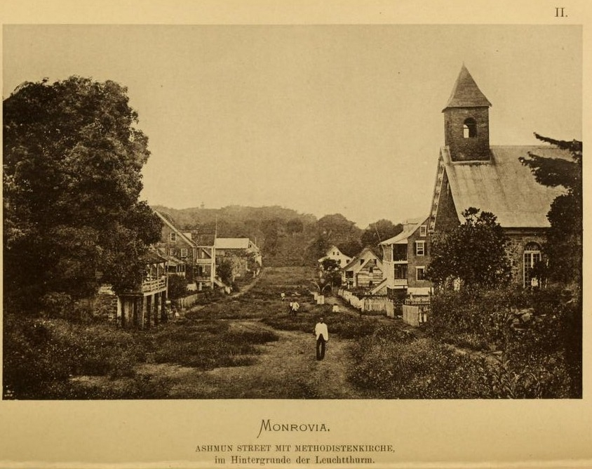 Vol.1 Photograph